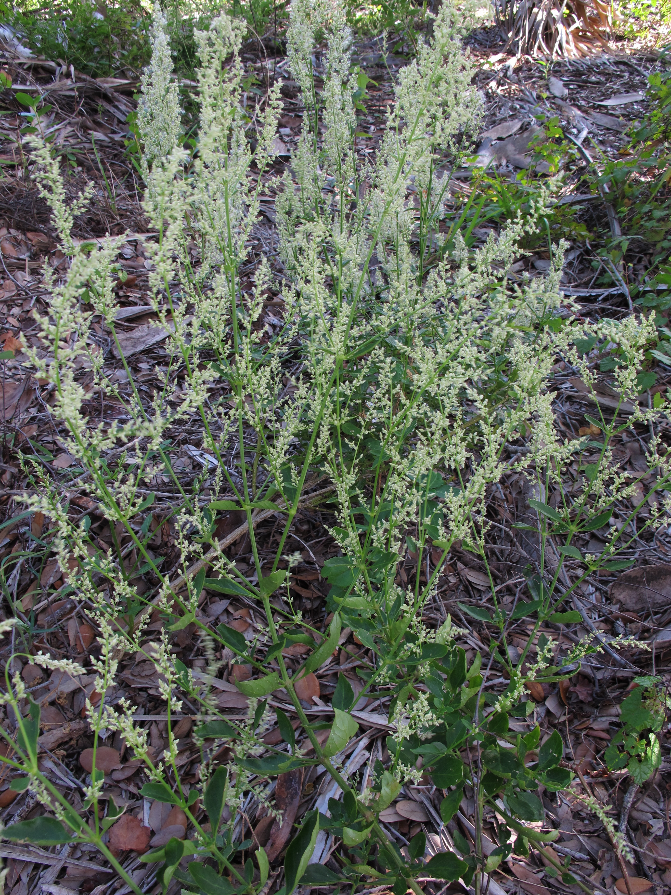 Yamato Scrub Natural Area, Boca Raton, Palm Beach County, Florida, USA.